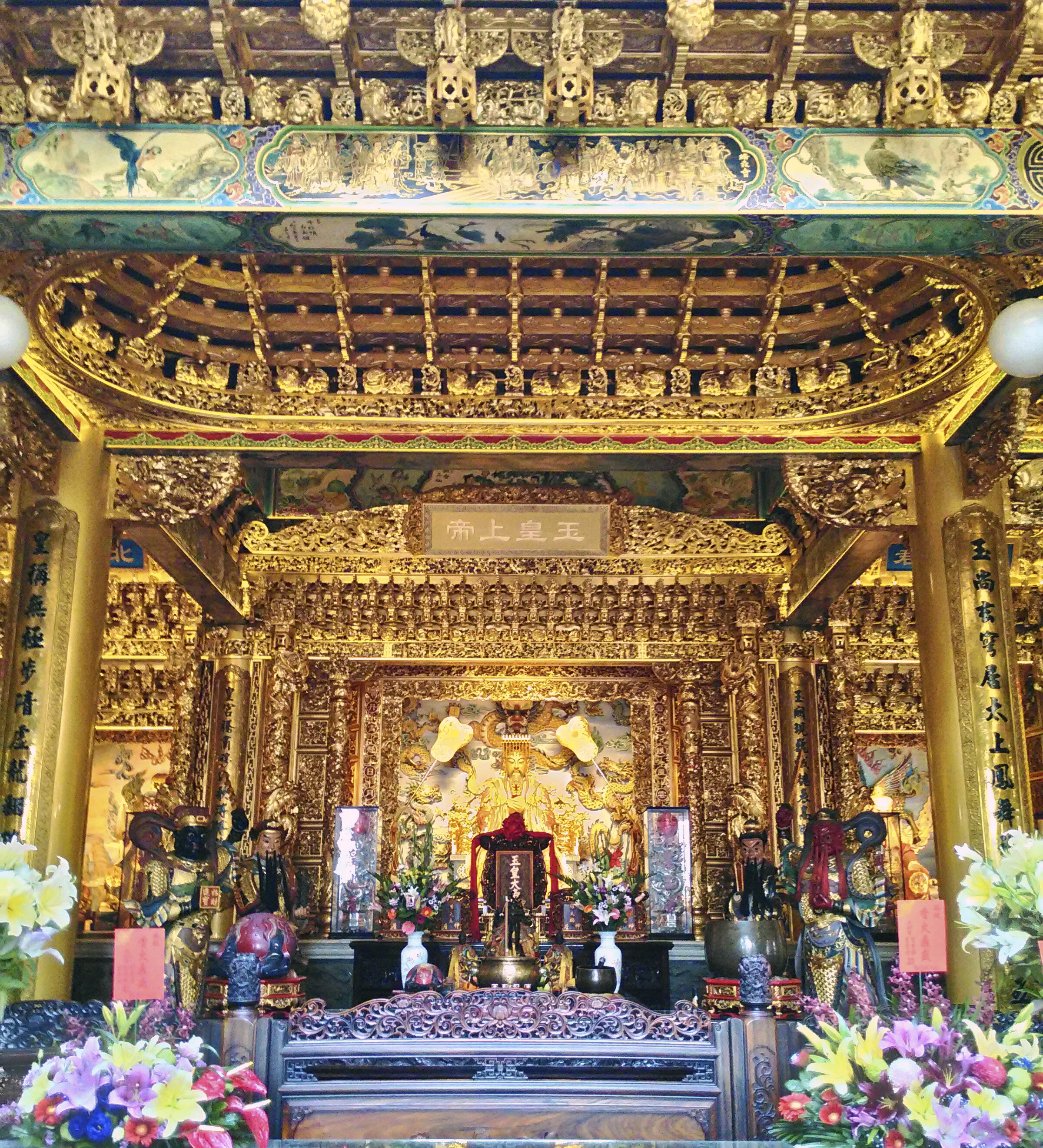 鳳山天公廟玉皇上帝